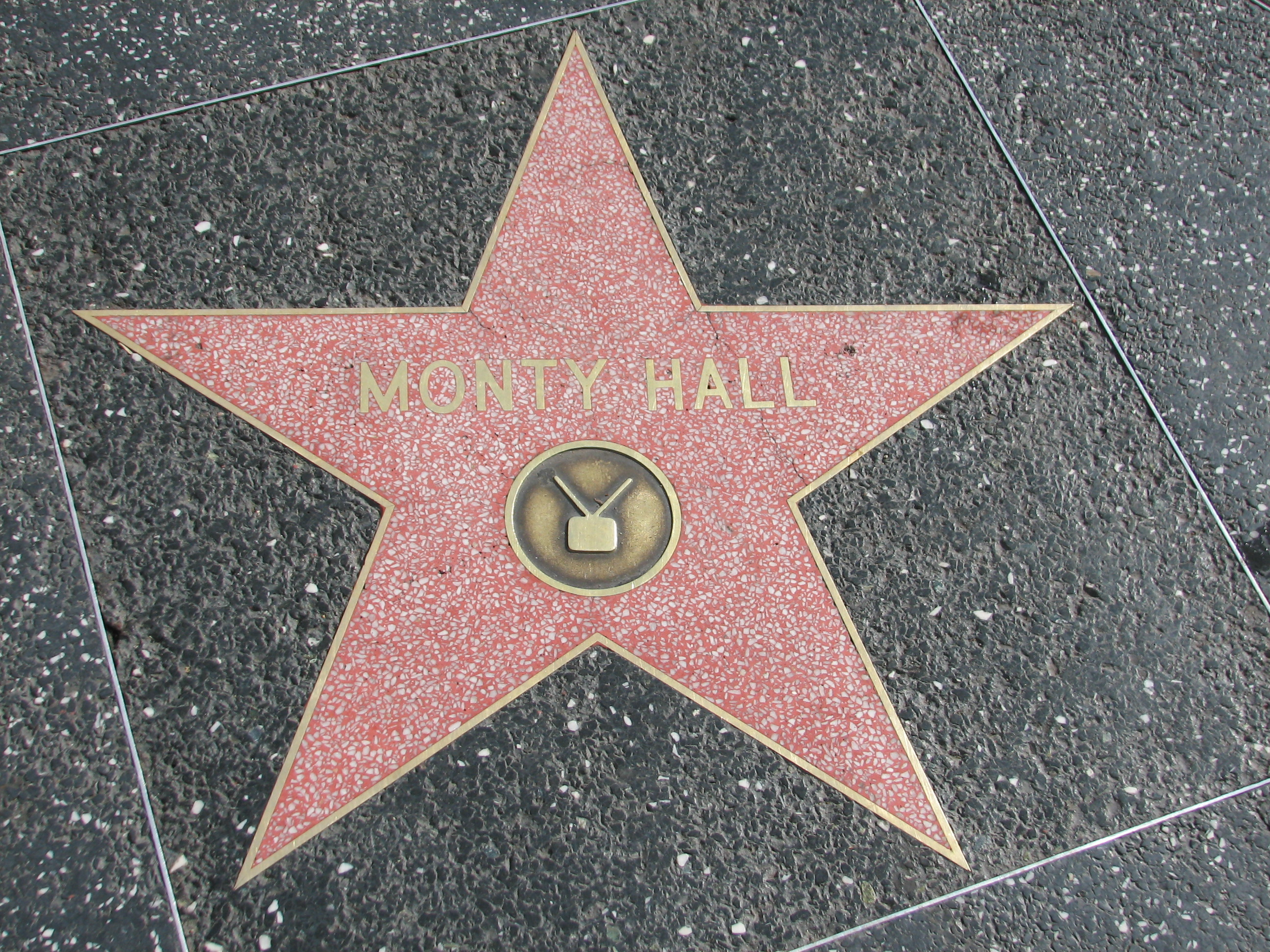 The star of Monty Hall on Hollywood Blvd in Hollywood, CA